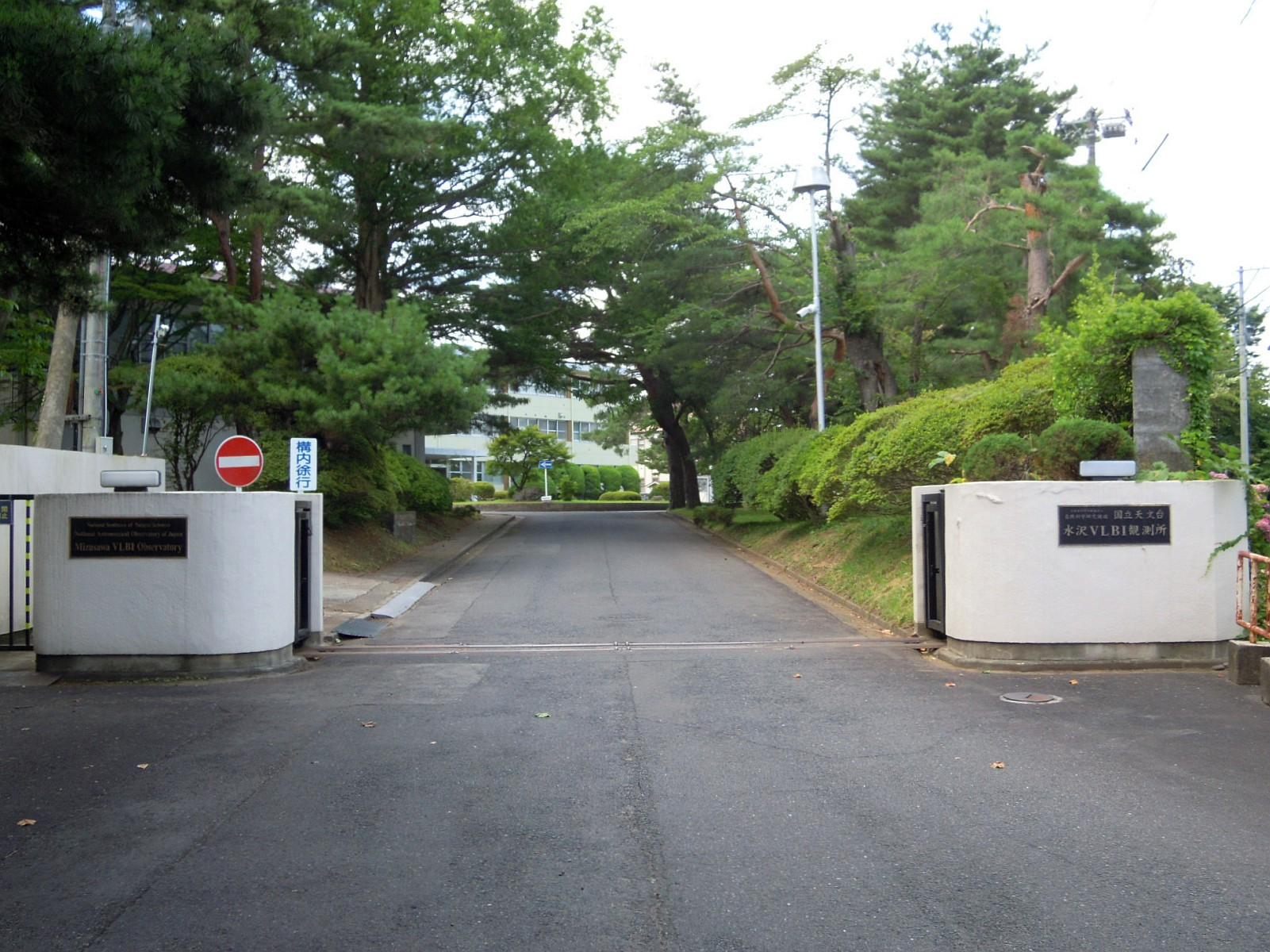 The main gate of the NAOJ Mizusawa campus in Oshu City, Iwate prefecture, Japan.